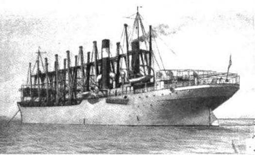 The collier "Jupiter" prior to conversion into the USS Langley (CV-1), America's first aircraft carrier.